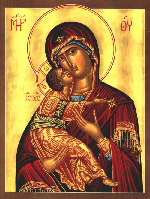 Theotokos (Mother of God) with nomina sacra letters MHP and ΘΥ, what means MHTHP ΘEOY (Mother of God) in greek, IC XC letters, what means IHCOYC XPICTOC (Jesus Christ) in greek and Ο, Ω, and hidden Ν around little Jesus' head, what means I AM or I AM, WHO I AM in Septuagint (greek translation of Old Testament) (Exodus 3,14) and reffers to Jesus' connection as Son to Father in the Holy Trinity